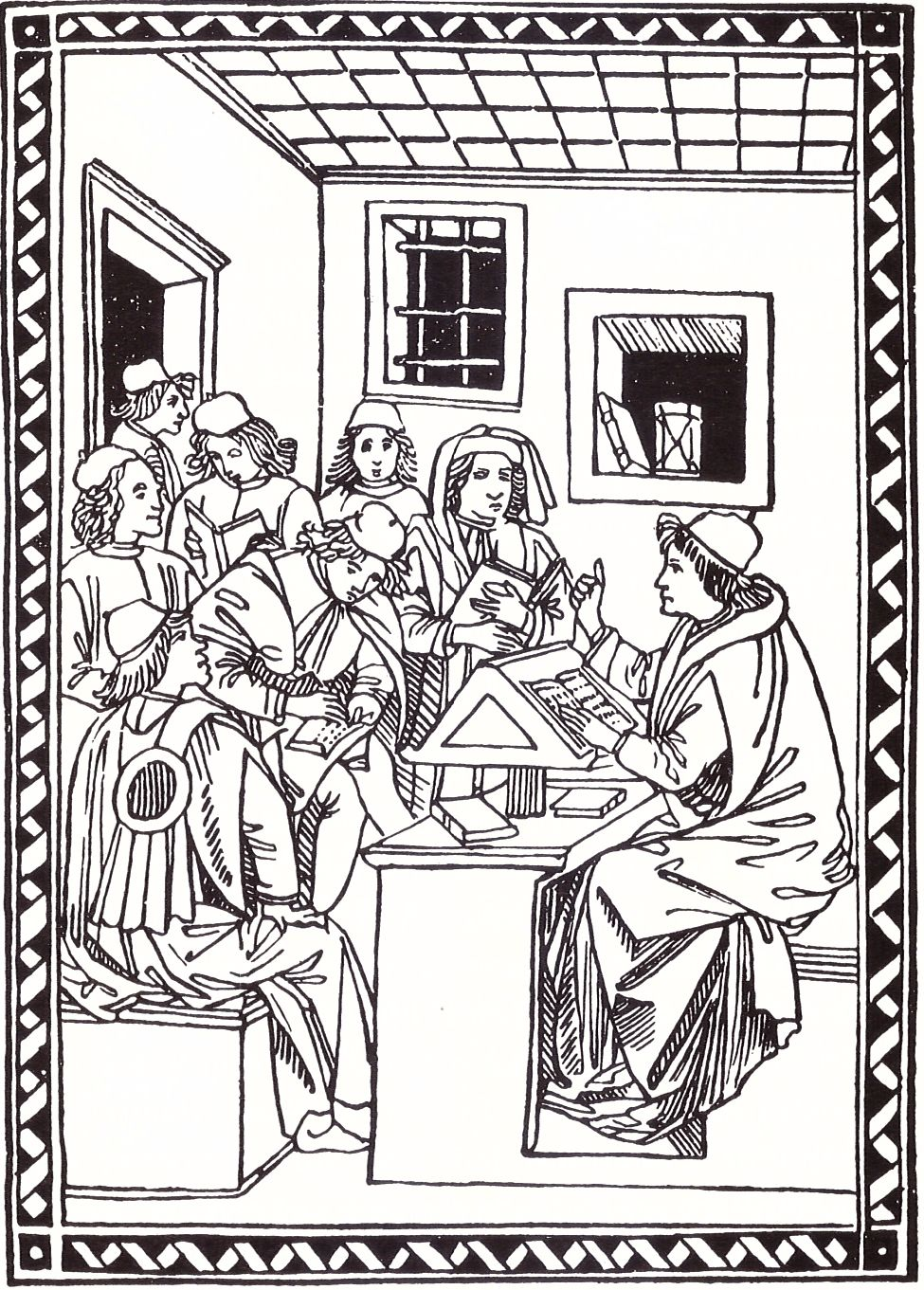 Cristoforo Landino teaching students (wood engraving). Frontispiece of Landino’s Formulario de epistole vulgare (letter-writer’s guide) in the edition Florence 1492.